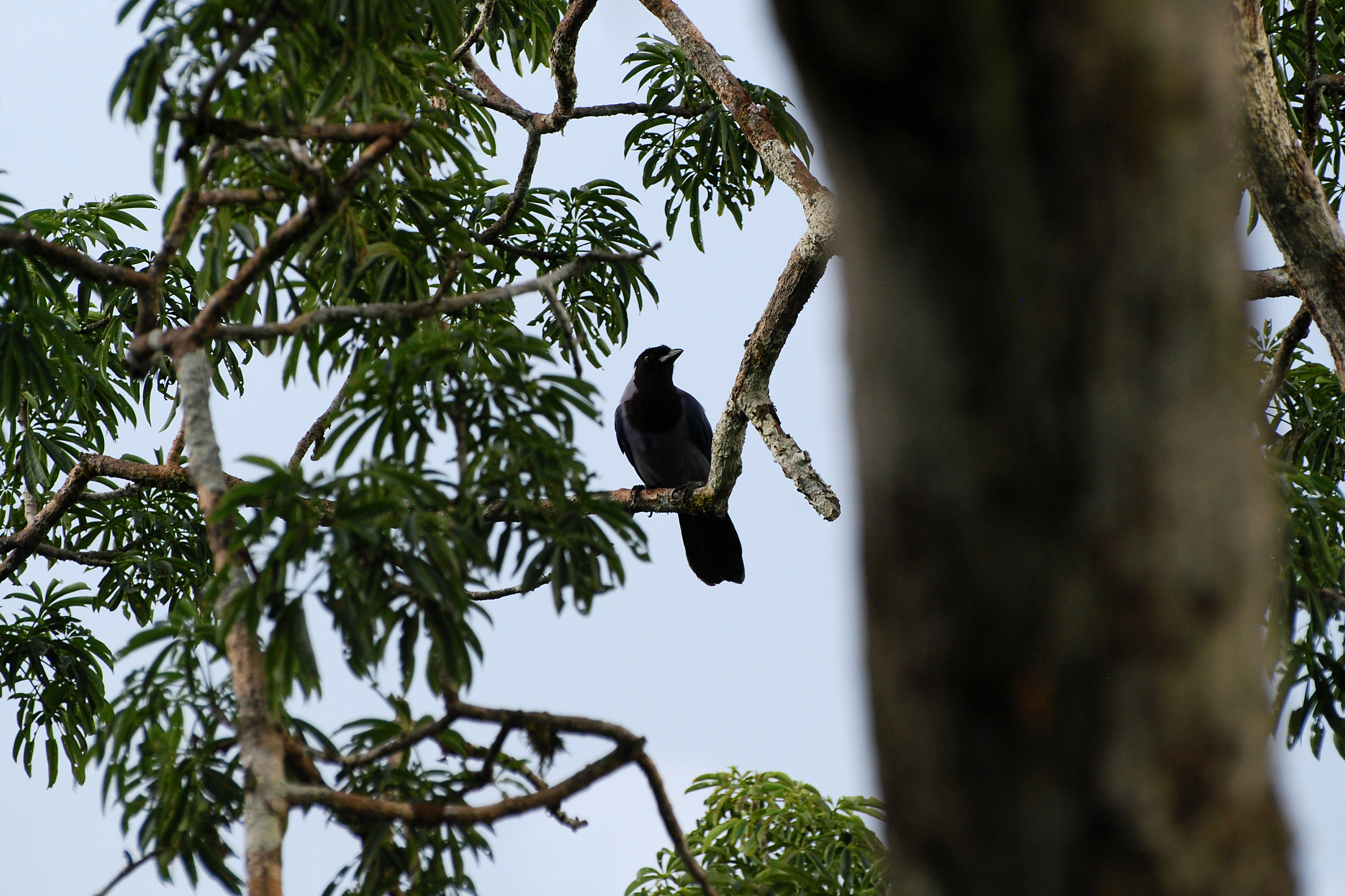 Found in Yasuni National Park, Ecuador